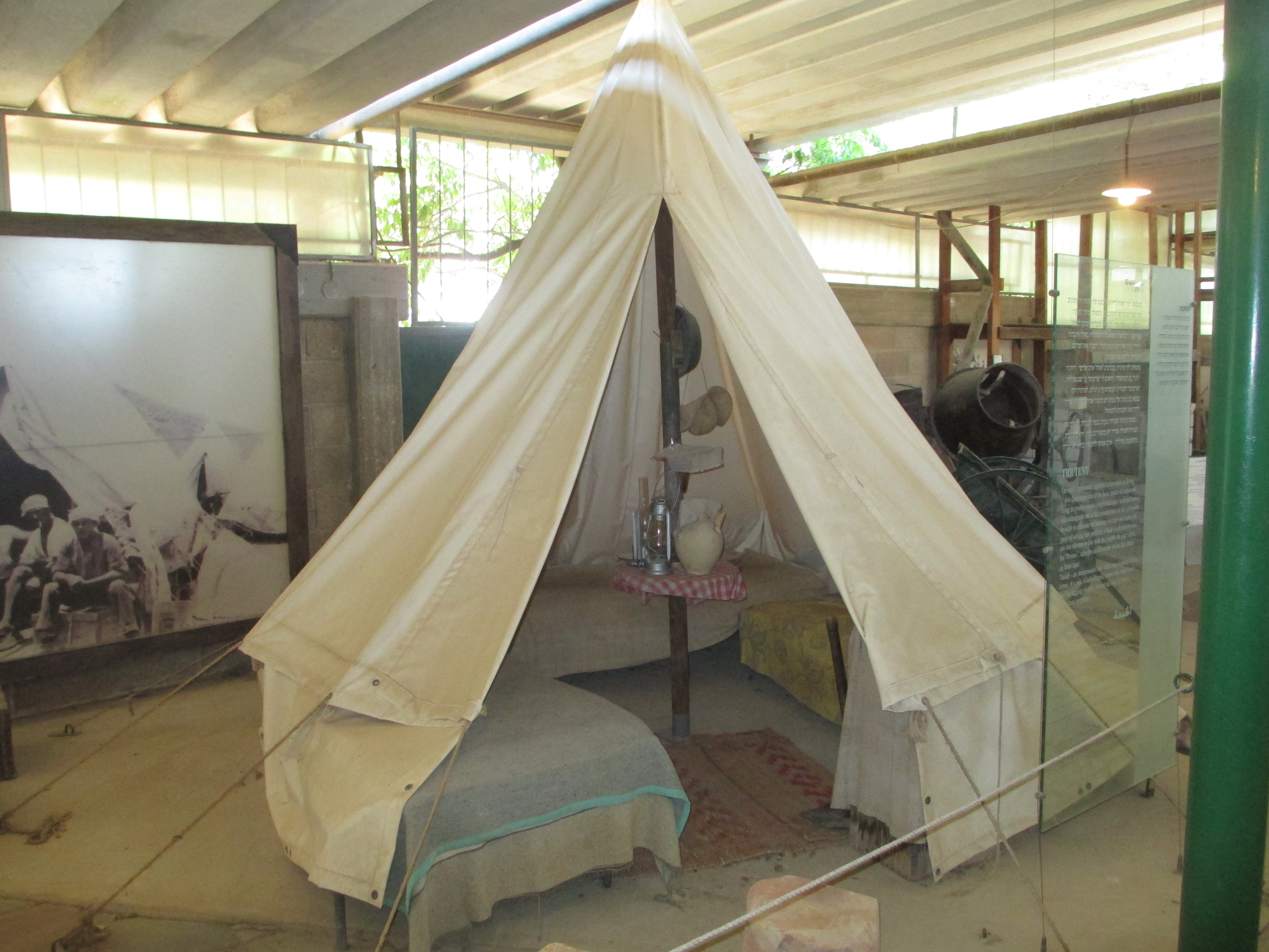 The Jezreel Valley Museum